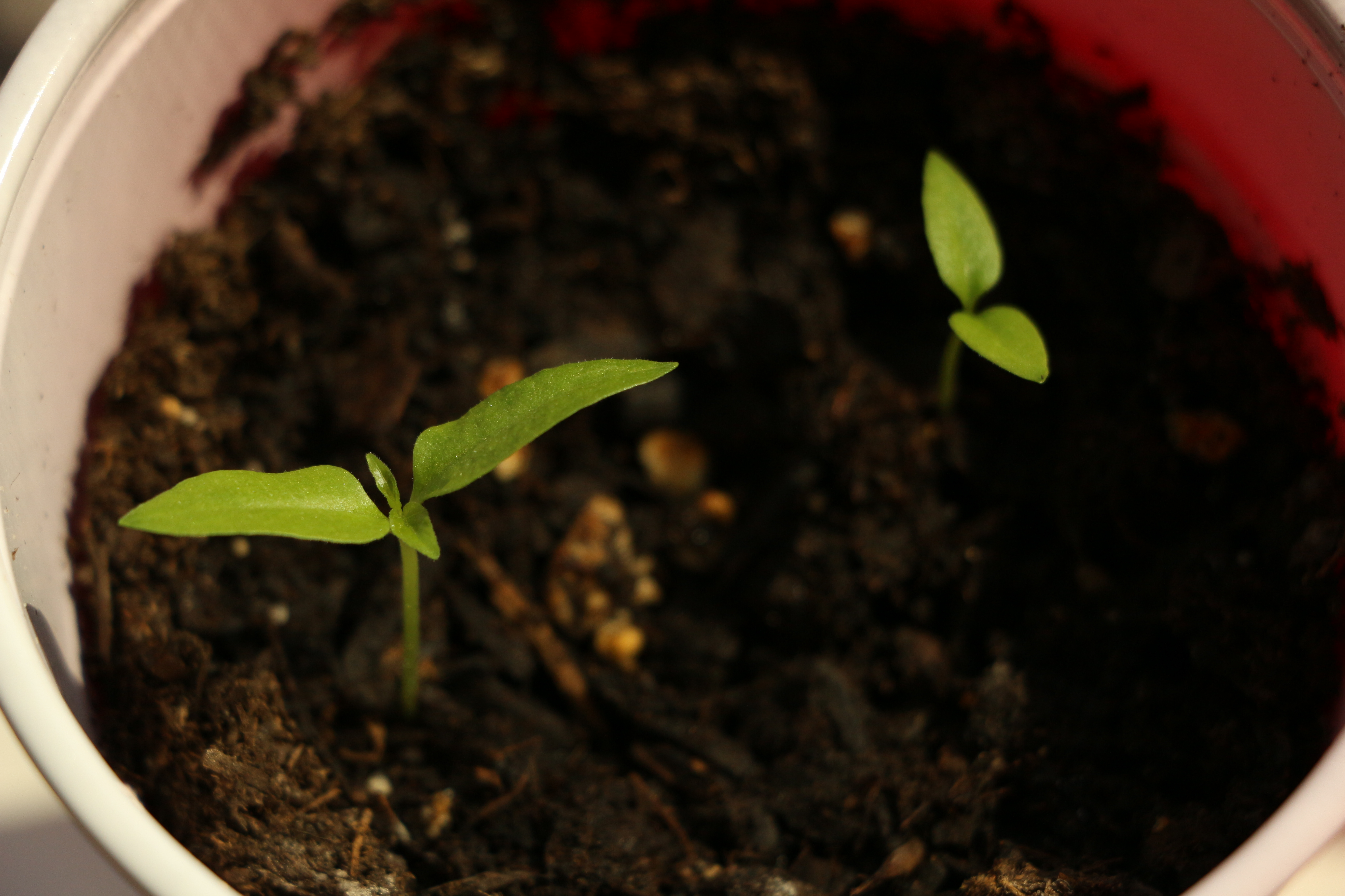 Trinidad Scorpion Butch T Sprouts growing in a Solo Cup.